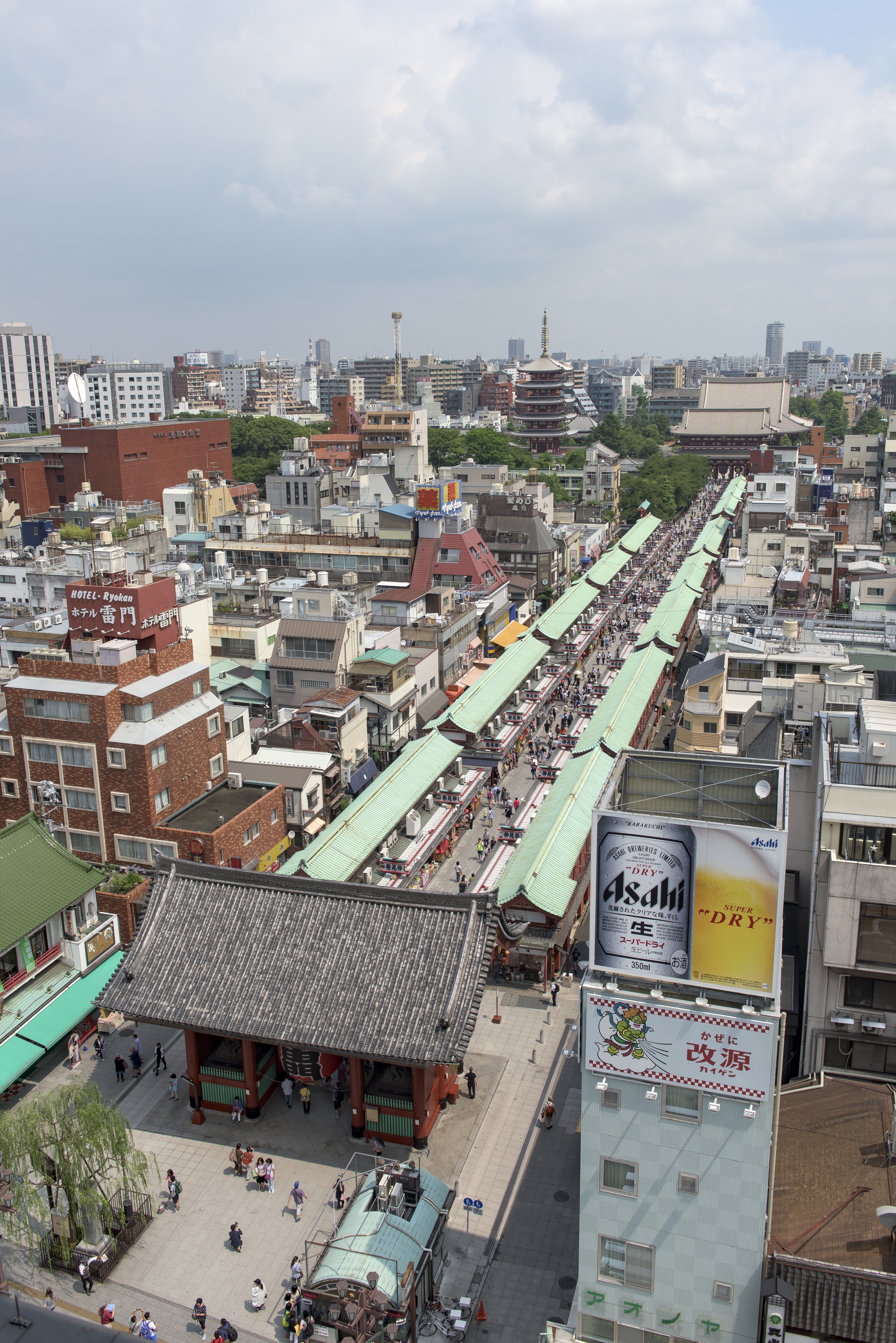 asakusa tokyo japan 2015